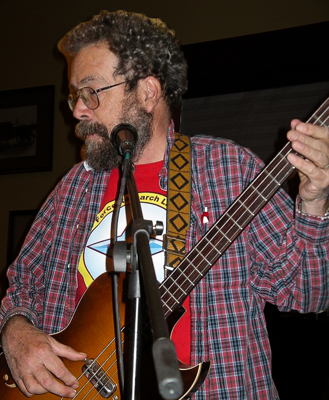 David E. Thomas performing with the Mose McCormack Band, 12-31-2014